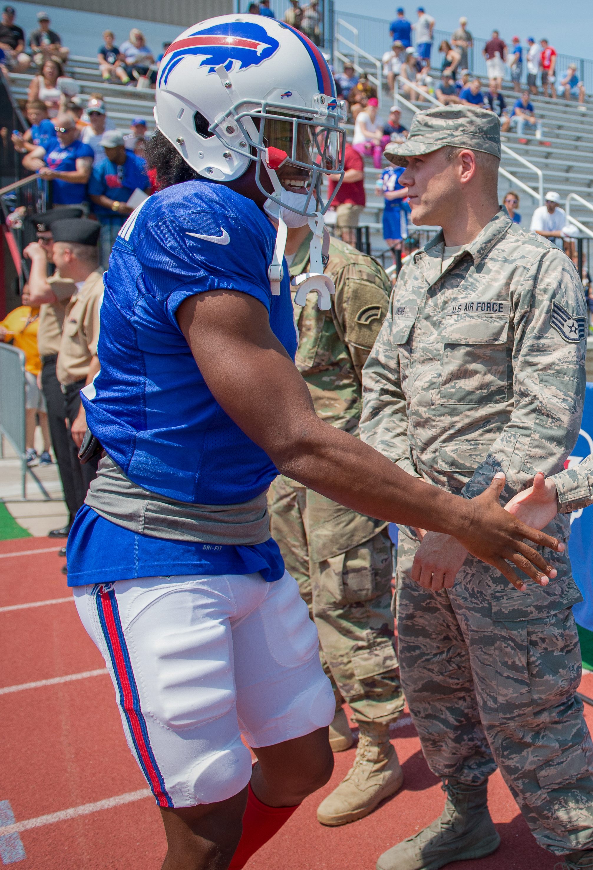 Airman 1st Class Jessica Ramos-Woodard, command support staff assigned to the 107th Operations Group, 107th Attack Wing, New York Air National Guard, shakes hands with Buffalo Bills wide receiver Ray-Ray McCloud III during the Buffalo Bills’ training camp at St. John Fisher College, Rochester, N.Y., Aug. 5, 2018. Members of military units from Western New York, were invited by the team to participate in NFL’s Military Appreciation Week. (U.S. Air National Guard Photo by Master Sgt. Brandy Fowler)